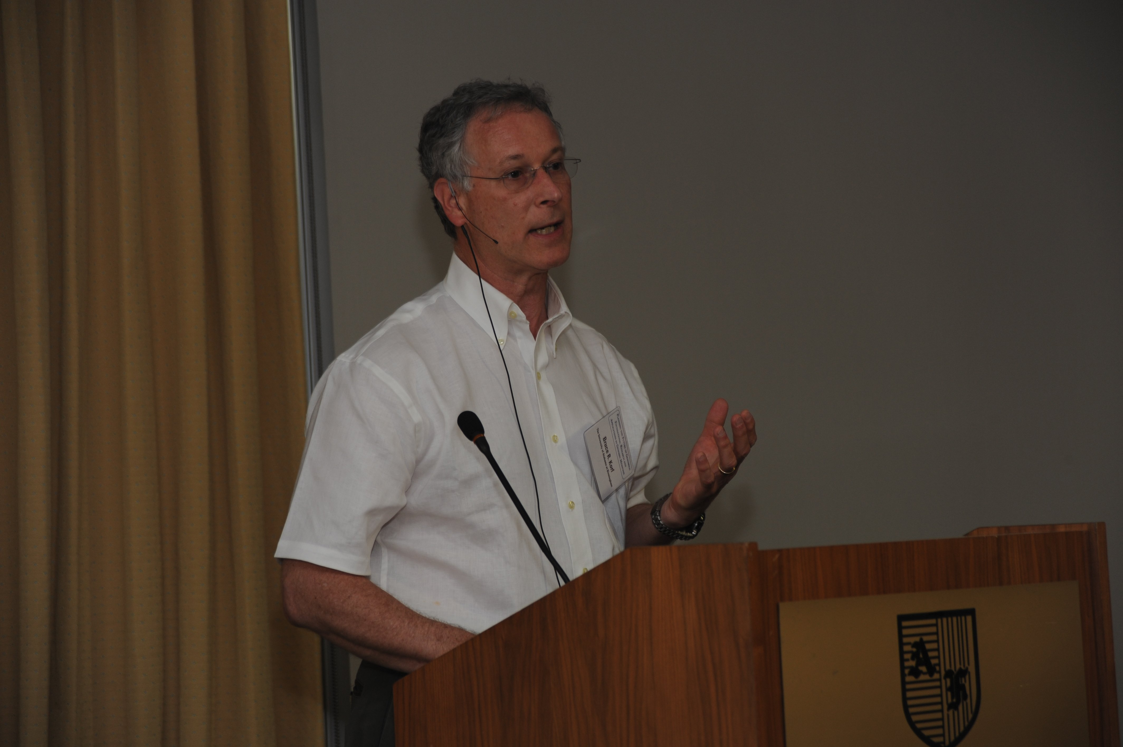 American biologist Bruce R. Korf at an event on "Planning the Future of Genomics" in the Airlie Conference Center of Warrenton, VA.